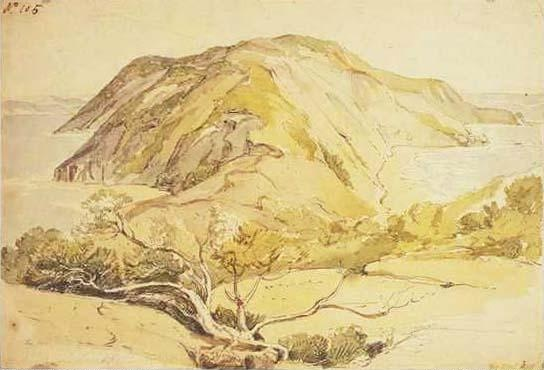 A drawing from the Westall collection with the inscription "Dec. 1801, King George's Sound, looking north. ". Source notes that there is an unfinished work on the reverse, and describes it as pencil and wash drawing 18.7 x 27 cm.